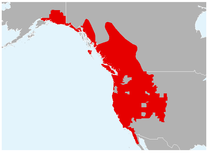 Range map for Anaxyrys boreas